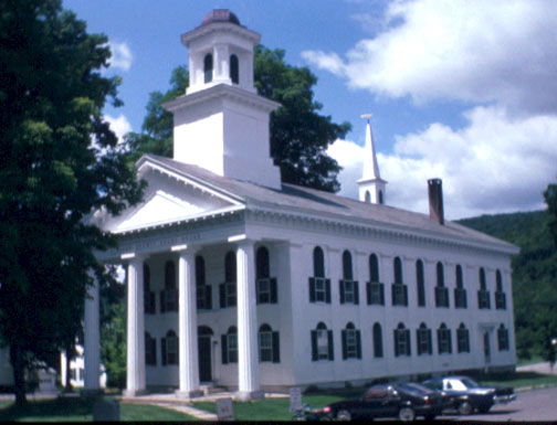 Front of the Windham County Courthouse, located at 7 Court Street in Newfane, Vermont, United States. Built in 1825, it is part of the Newfane Village Historic District, which is listed on the National Register of Historic Places.